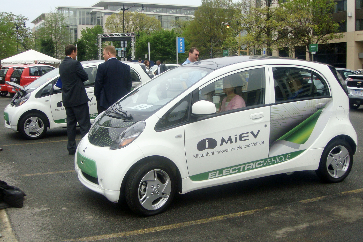 Mitsubishi i MiEV electric cars participating in the Ride, Drive & Charge event organized by the EDTA, downtown Washington, D.C.